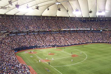 I took this photo early in the final game of the AL Division Series with the Yankees, at the Metrodome on October 9, en:2004. Category:Images of Minneapolis, Minnesota